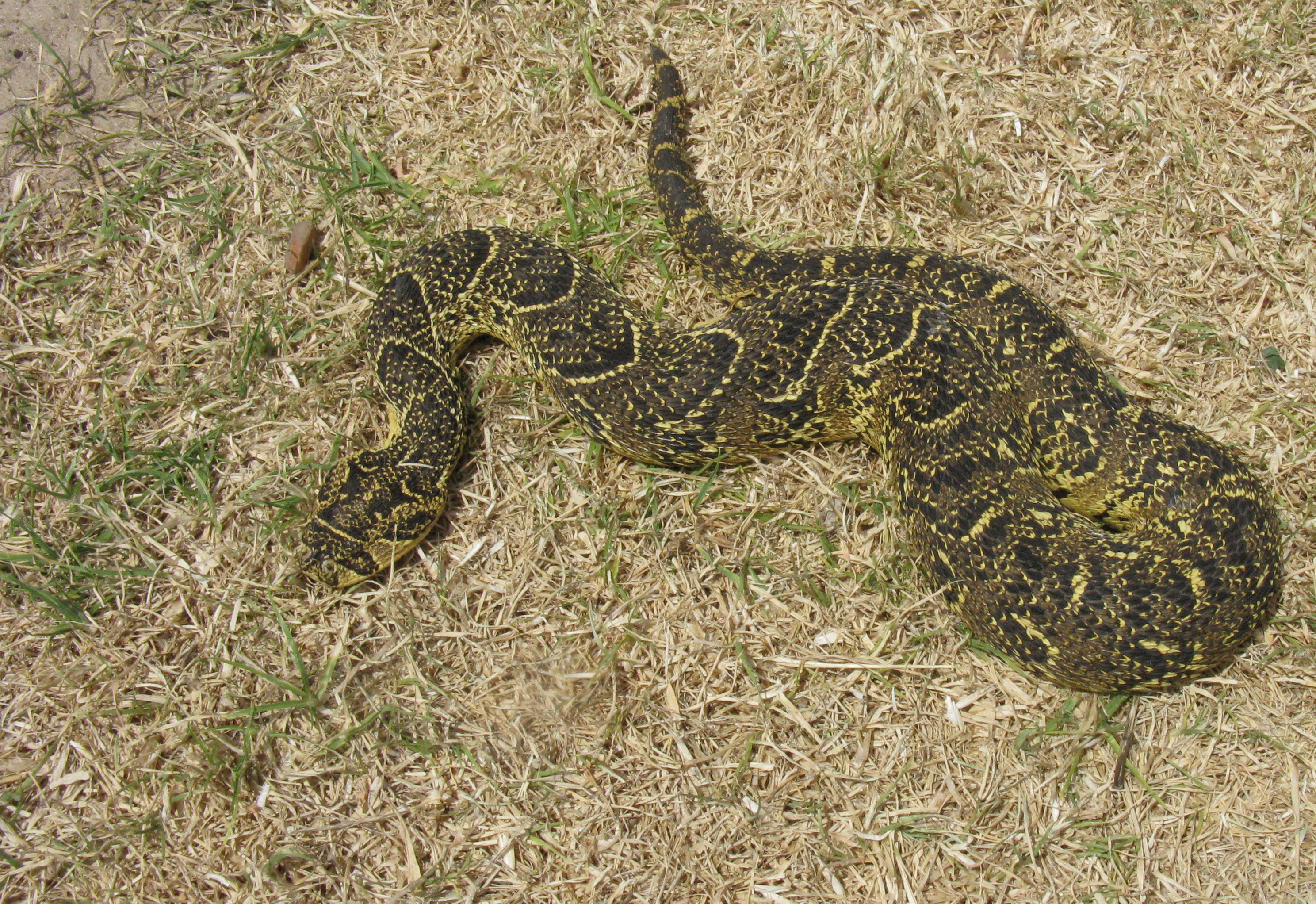 This snake is looking for a less exposed position and is not aroused enough to adopt a defensive or entreating attitude. Probable female.